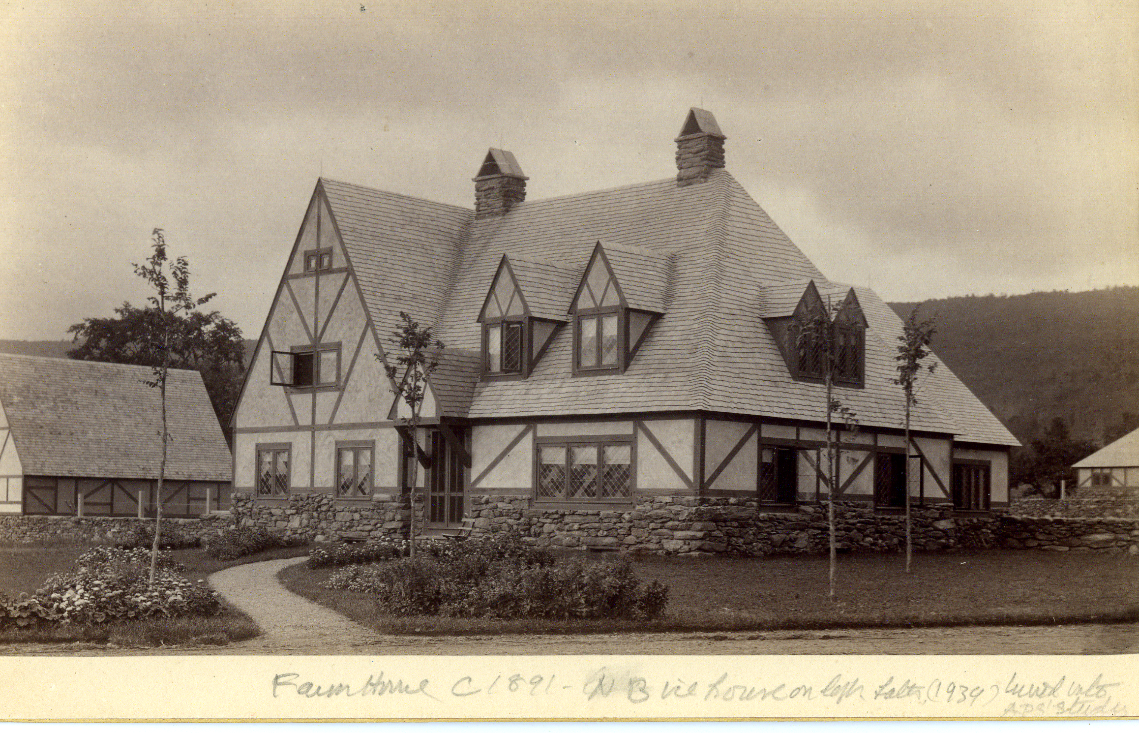 Brook Farm circa 1891, farmhouse was a part of the Shadowbrook Estate, Lenox,MA